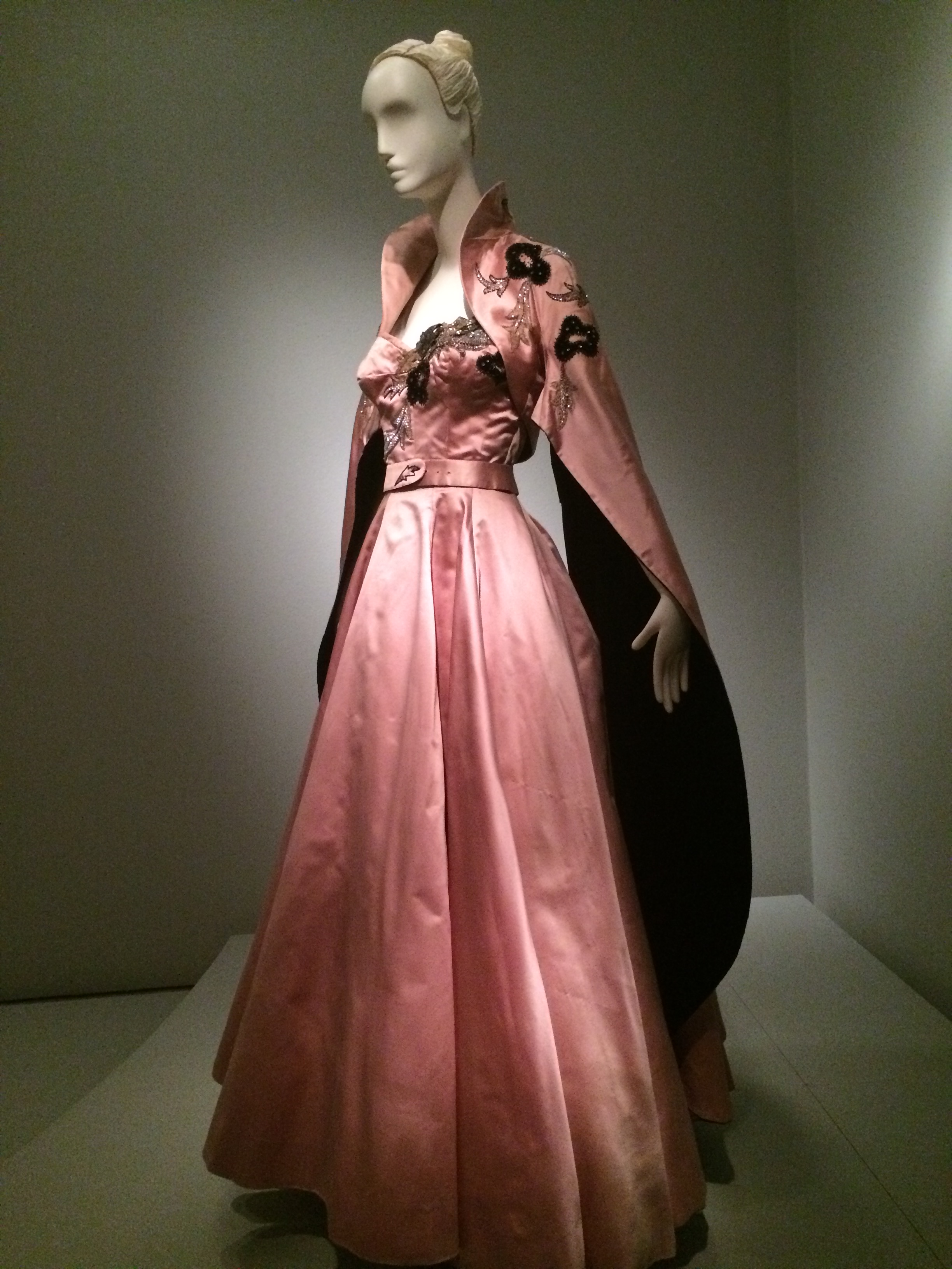 Silk evening ensemble designed by Micol, Zoe and Giovanna Fontana for Ava Gardner's role in the film The Barefoot Contessa (1954).From the Brooklyn Museum Costume Collection at the Metropolitan Museum of Art, exhibited during High Style: The Brooklyn Museum Costume Collection at the Legion of Honor Museum, San Francisco.Brooklyn Museum Costume Collection at The Metropolitan Museum of Art, Gift of the Brooklyn Museum, 2009; Gift of Micol Fontana, 1954.source